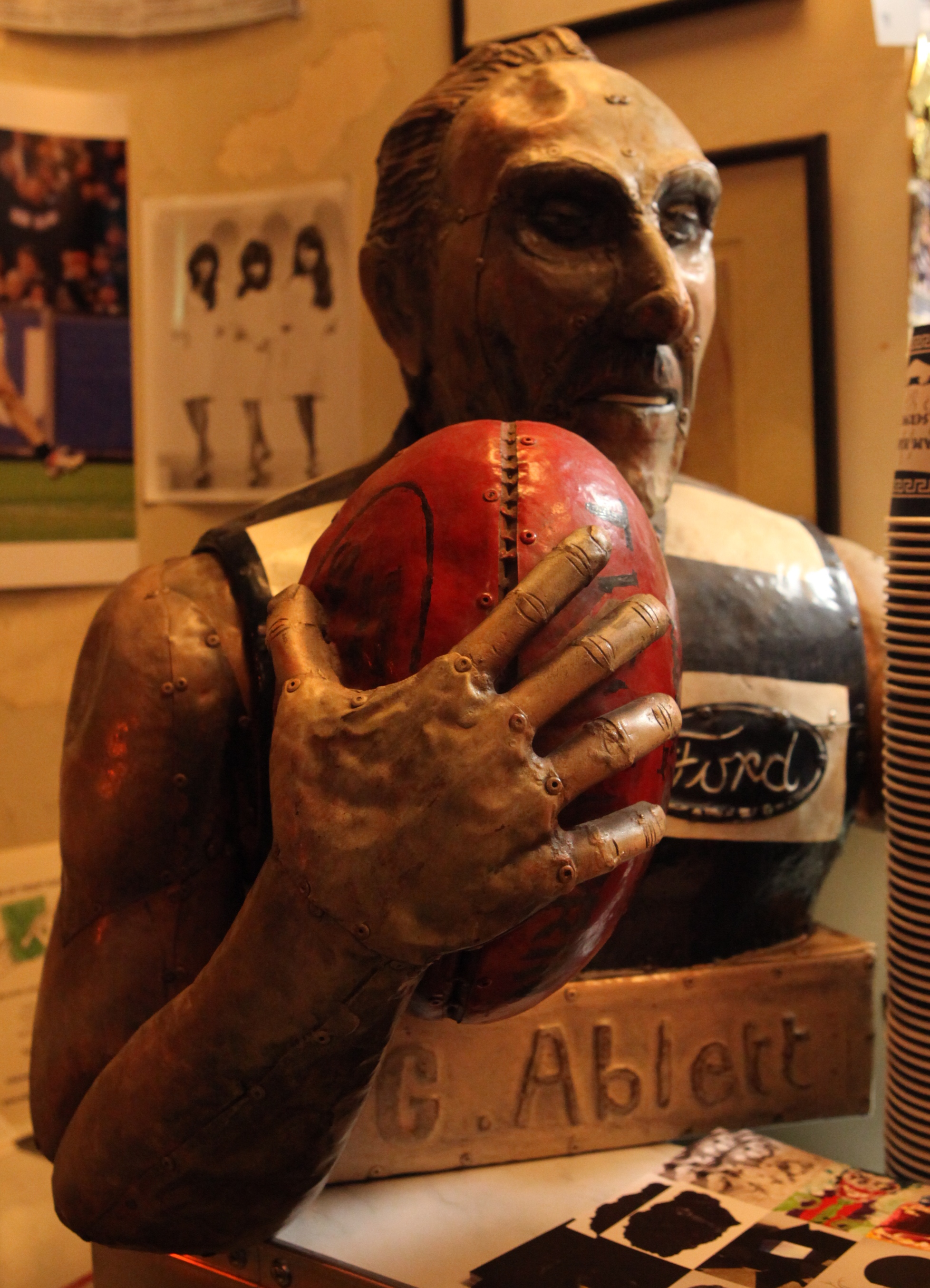 Sculpture of Australian rules footballer Gary Ablett, Snr.